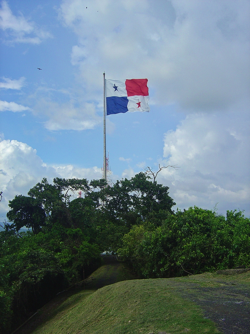 Ancon Hill